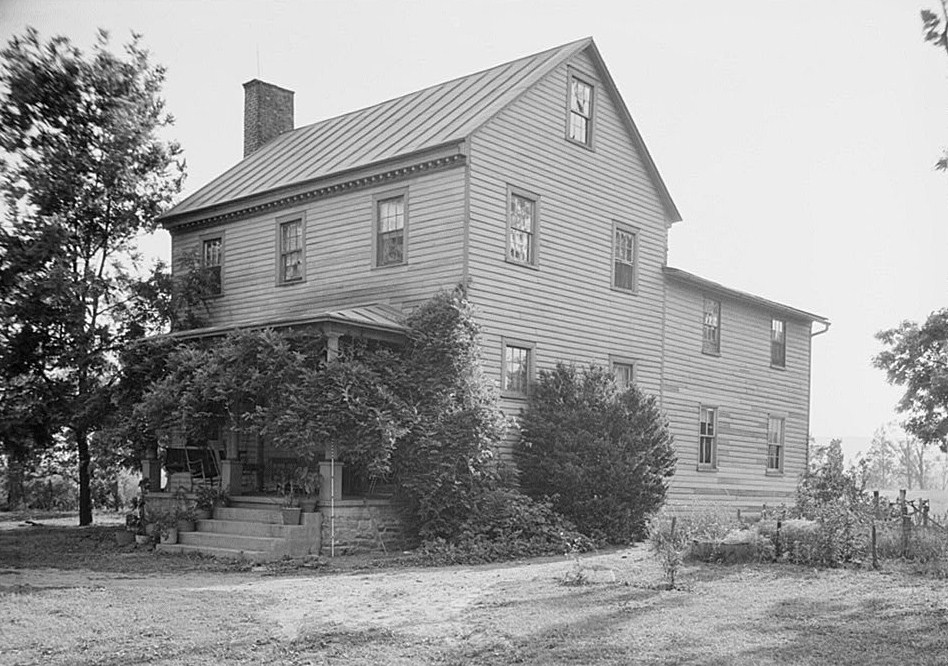 Mount Atlas, State Route 731 vicinity, Waterfall (Prince William County, Virginia) cropped, HABS VA,76-WATFA,2-1 This file comes from the Historic American Buildings Survey (HABS), Historic American Engineering Record (HAER) or Historic American Landscapes Survey (HALS). These are programs of the National Park Service established for the purpose of documenting historic places. Records consist of measured drawings, archival photographs, and written reports. When reusing please credit: Library of Congress, Prints & Photographs Division, VA-831 This tag does not indicate the copyright status of the attached work. A normal copyright tag is still required. See Commons:Licensing for more information. This work is in the public domain in the United States because it is a work prepared by an officer or employee of the United States Government as part of that person’s official duties under the terms of Title 17, Chapter 1, Section 105 of the US Code. See Copyright. Note: This only applies to original works of the Federal Government and not to the work of any individual U.S. state, territory, commonwealth, county, municipality, or any other subdivision. This template also does not apply to postage stamp designs published by the United States Postal Service since 1978. (See § 313.6(C)(1) of Compendium of U.S. Copyright Office Practices). It also does not apply to certain US coins; see The US Mint Terms of Use. This file has been identified as being free of known restrictions under copyright law, including all related and neighboring rights.